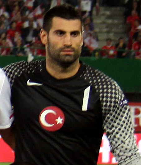 Volkan Demirel, cropped from Turkey national football team against Austria 2011-09-06 (0:0)